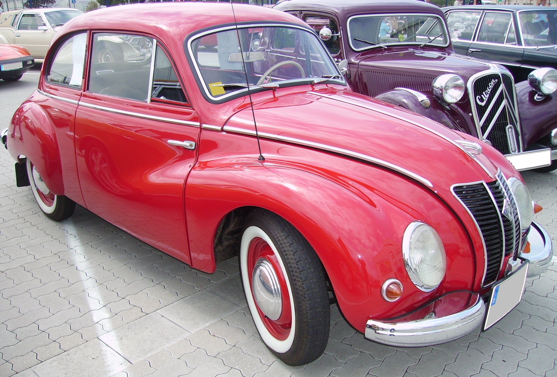 An IFA F9, a car produced in East Germany, this one probably in 1954.